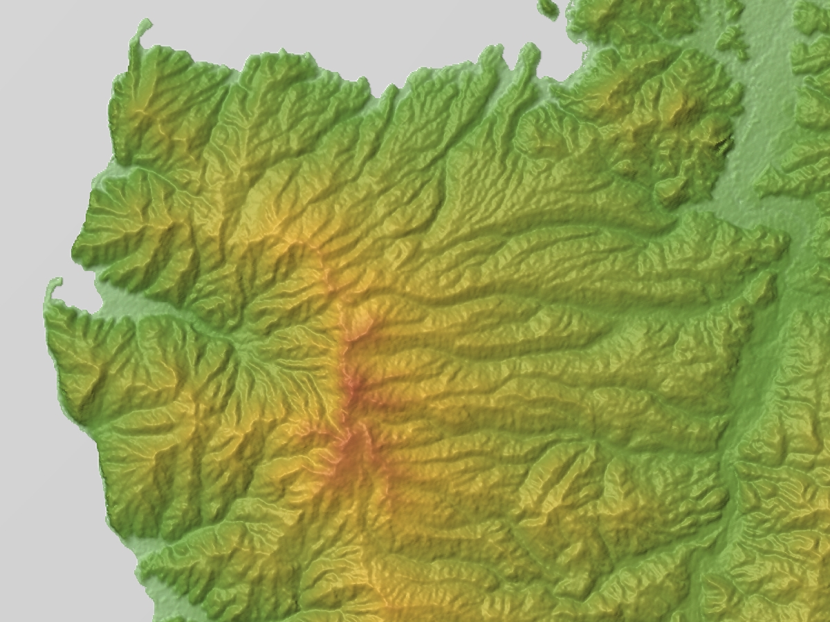 Massif of Daruma Volcano in Shizuoka Prefecture, Honshu, Japan.